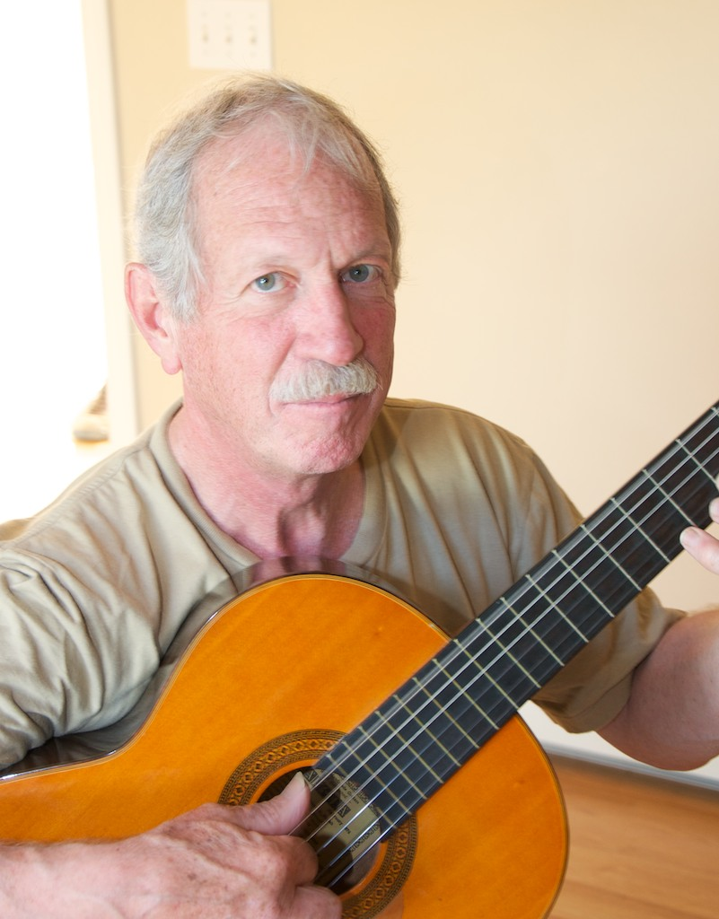 headshot of Dr. William Washabaugh taken May 2009.